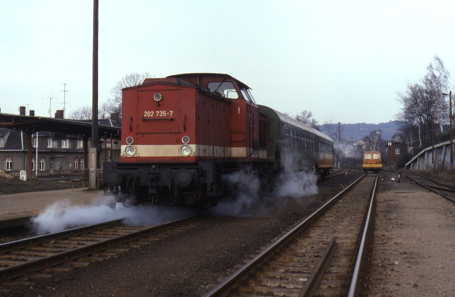 202.735 on train 7837,10:59 Rochlitz (Sachs) to Chemnitz Hbf taken during a station stop at Wechselburg on 18 January 1994. The station was the junction between lines to Chemnitz, Glauchau and Großbothen and following serious flooding in 2002, the lines were closed.